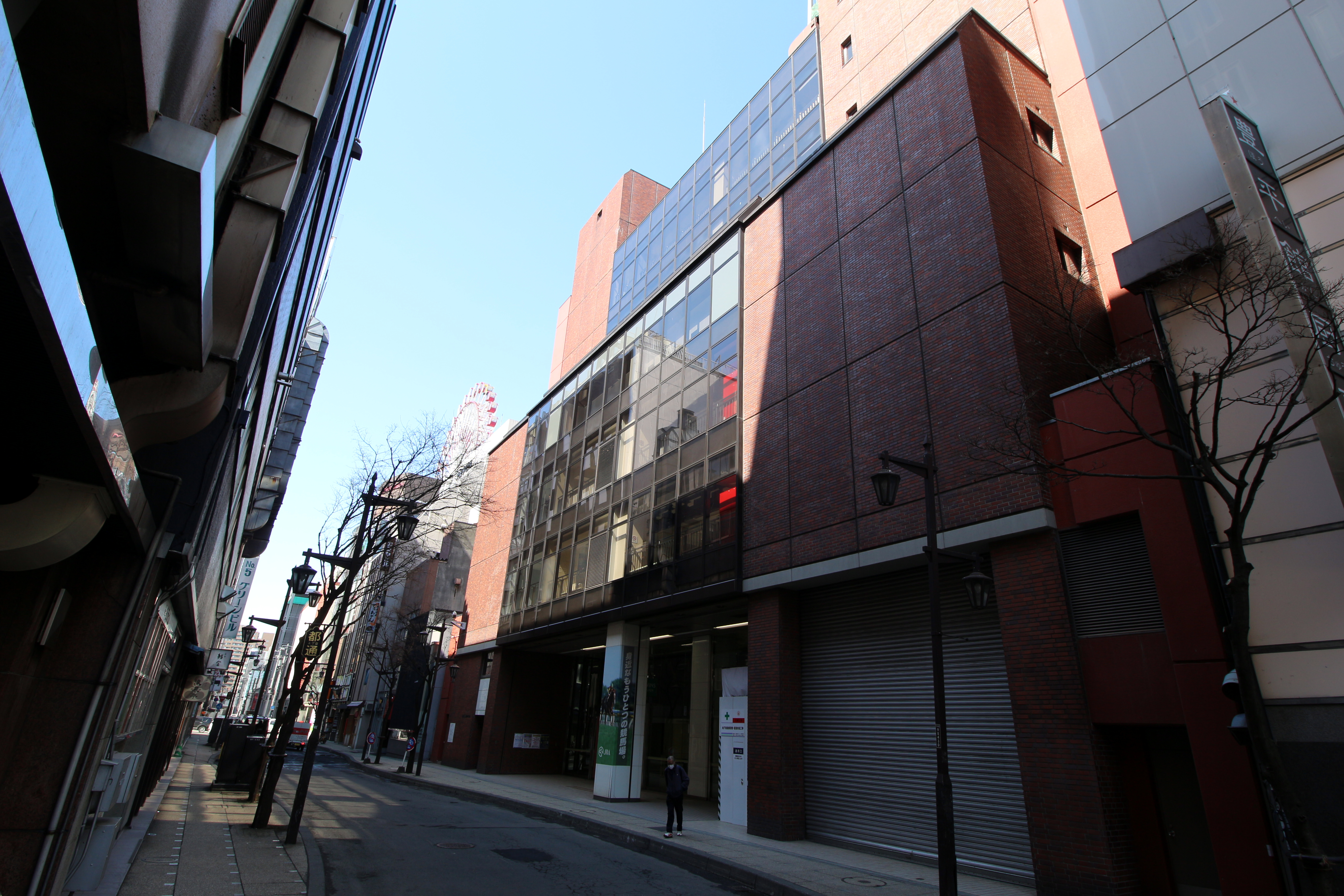 WINS office of the Japan Racing Association in Sapporo, Hokkaido.